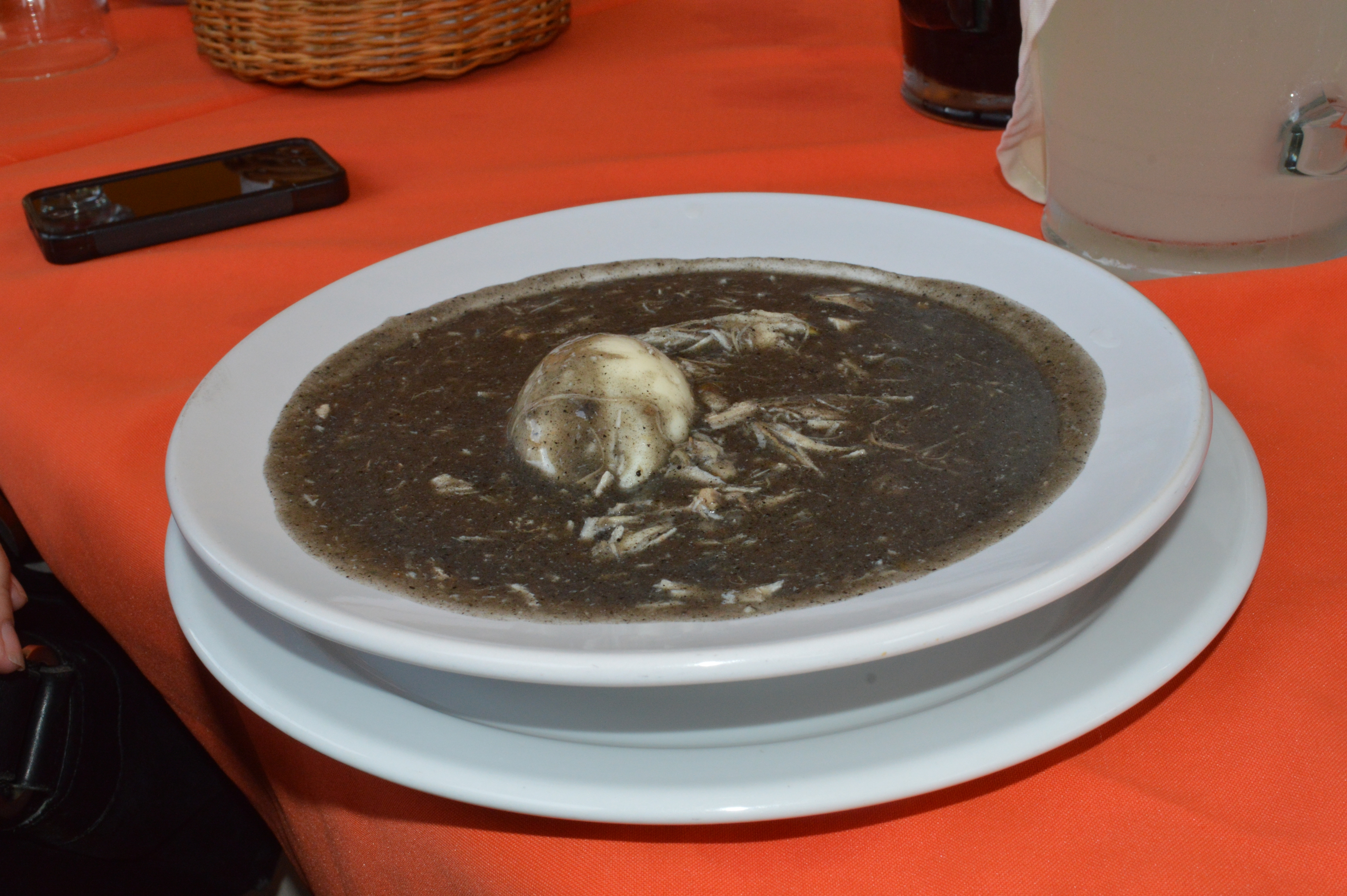 Pavo Relleno Negro, turkey in a black sauce from the Yucatan